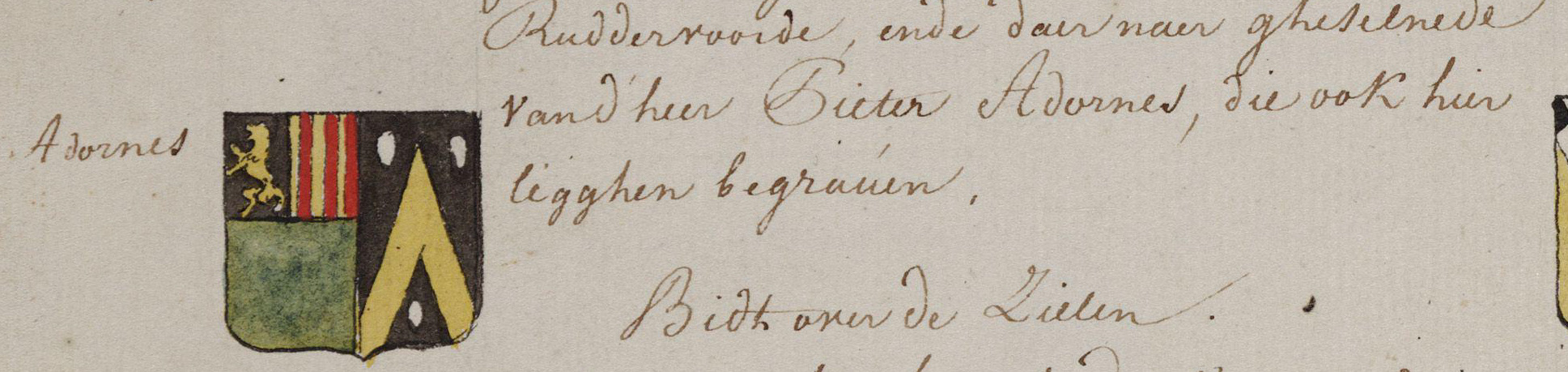 pagina uit het Handschrift De Hooghe